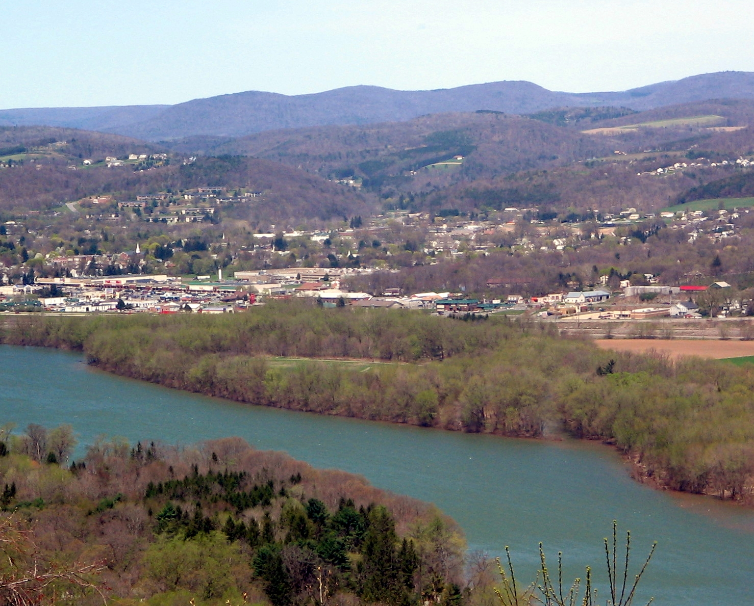 Canfield Island in the West Branch Susquehanna River, as seen from Bald Eagle Mountain. Canfield Island is part of Riverfront Park, Loyalsock Township, Lycoming County, Pennsylvania, USA